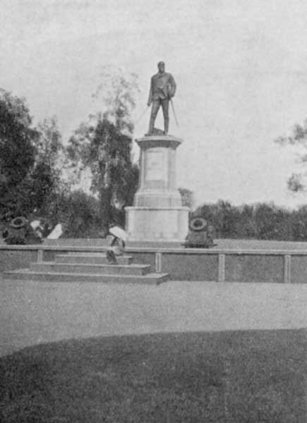 Statue of John Nicholson at Delhi, with naked sword in hand. Taken down when India became Independent.